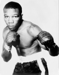 Benny "the kid" Paret in fighting pose before his death